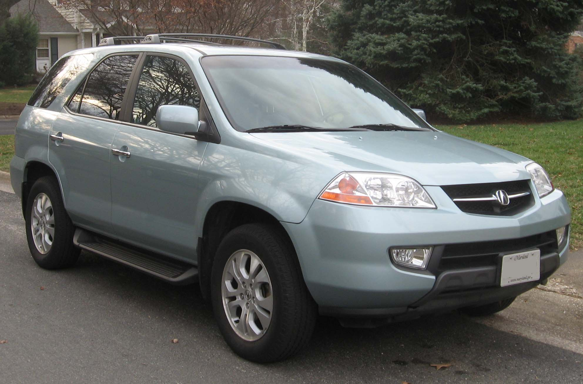 2001-2003 Acura MDX photographed in Kensington, Maryland, USA.